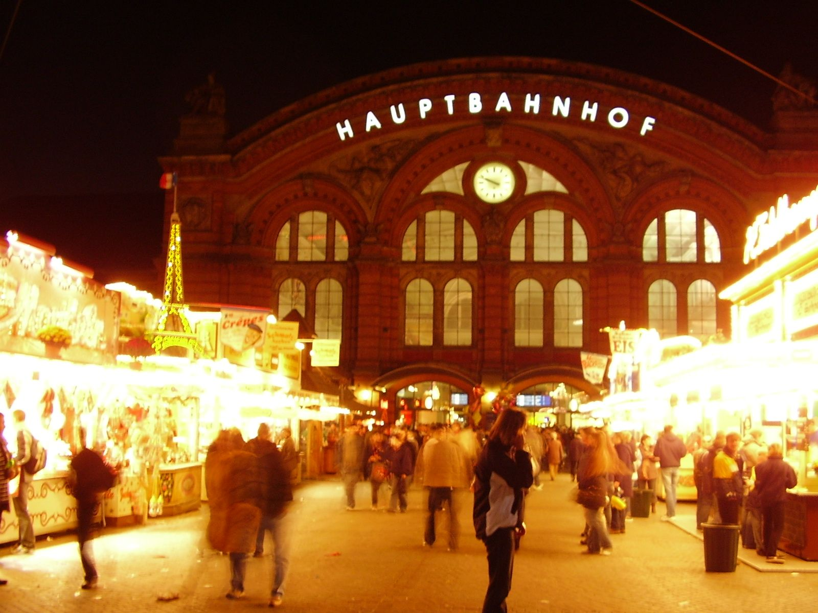 Bremen Hauptbahnhof in Bremen, at Freimarkt